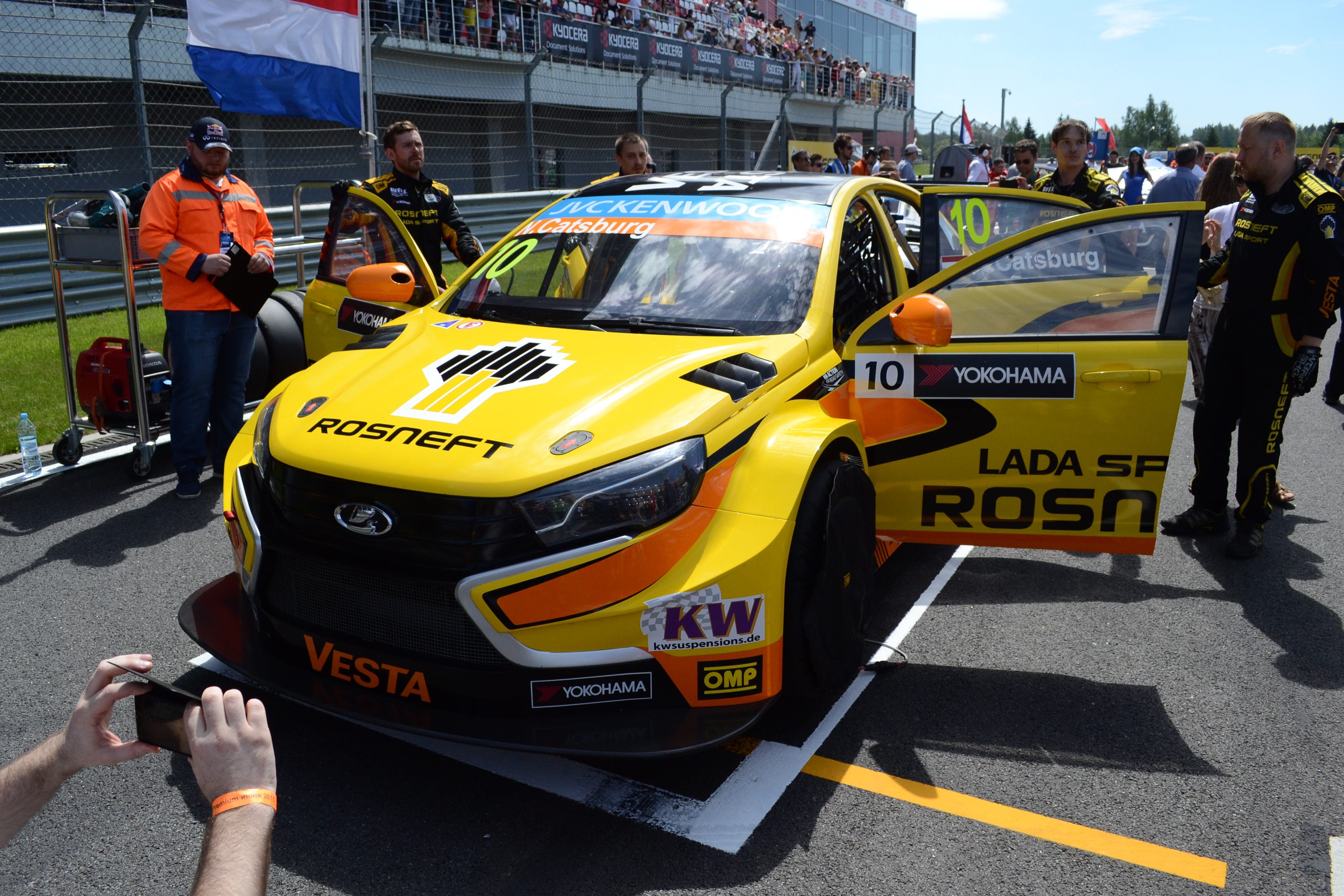 Lada Vesta WTCC at Moscow Raceway, June 2015